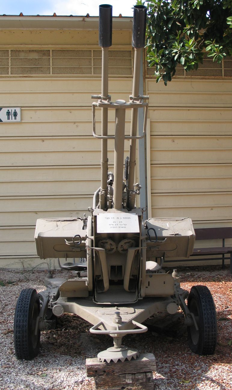 Description: ZU-23-2 23 mm anti-aircraft cannon in Batey ha-Osef Museum, Tel Aviv, Israel. 2005. Source: Photo by me, User:Bukvoed.